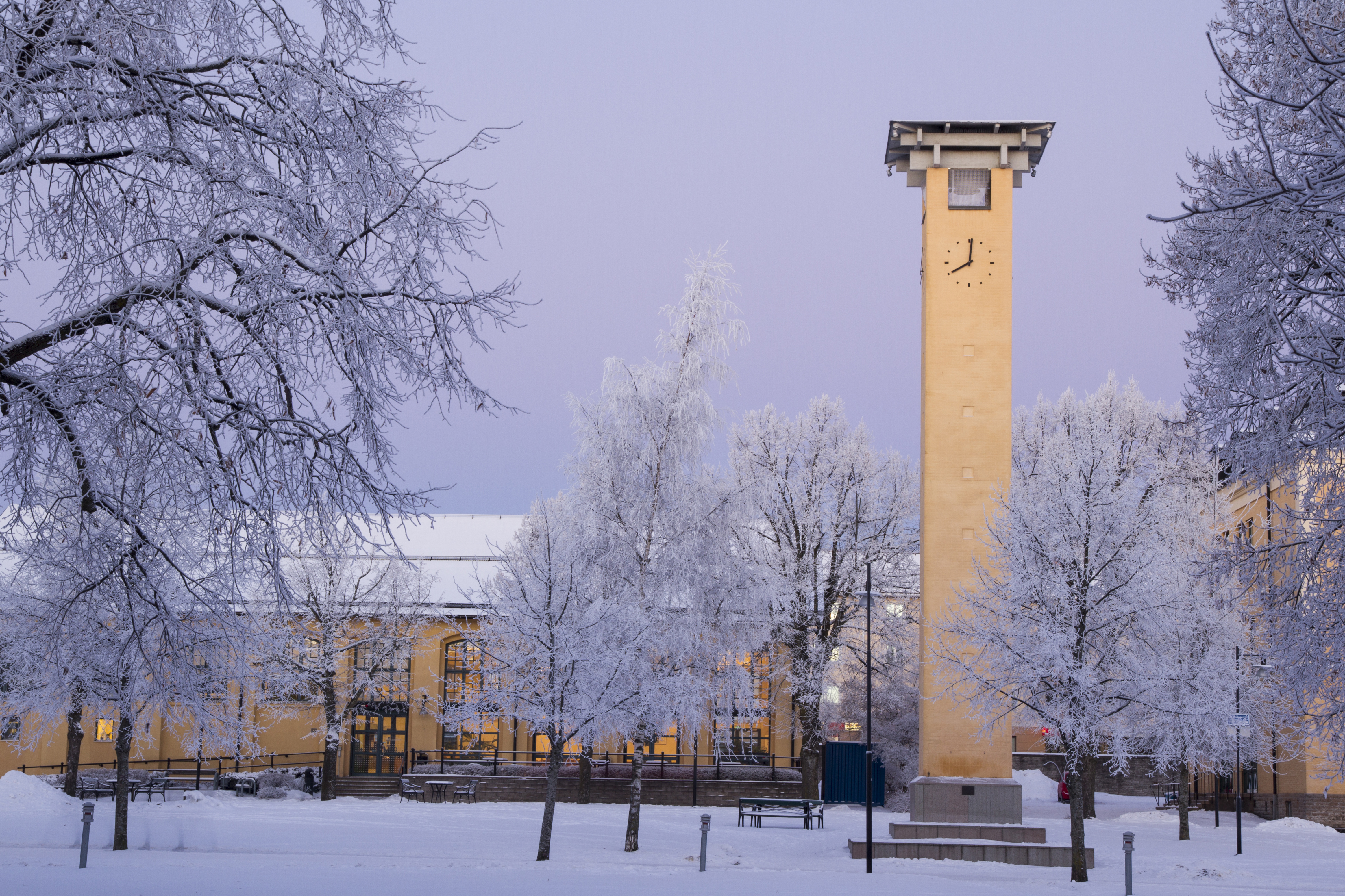 Snowy campus at the University of Skövde